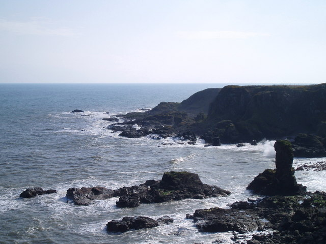 looking towards Doonie point